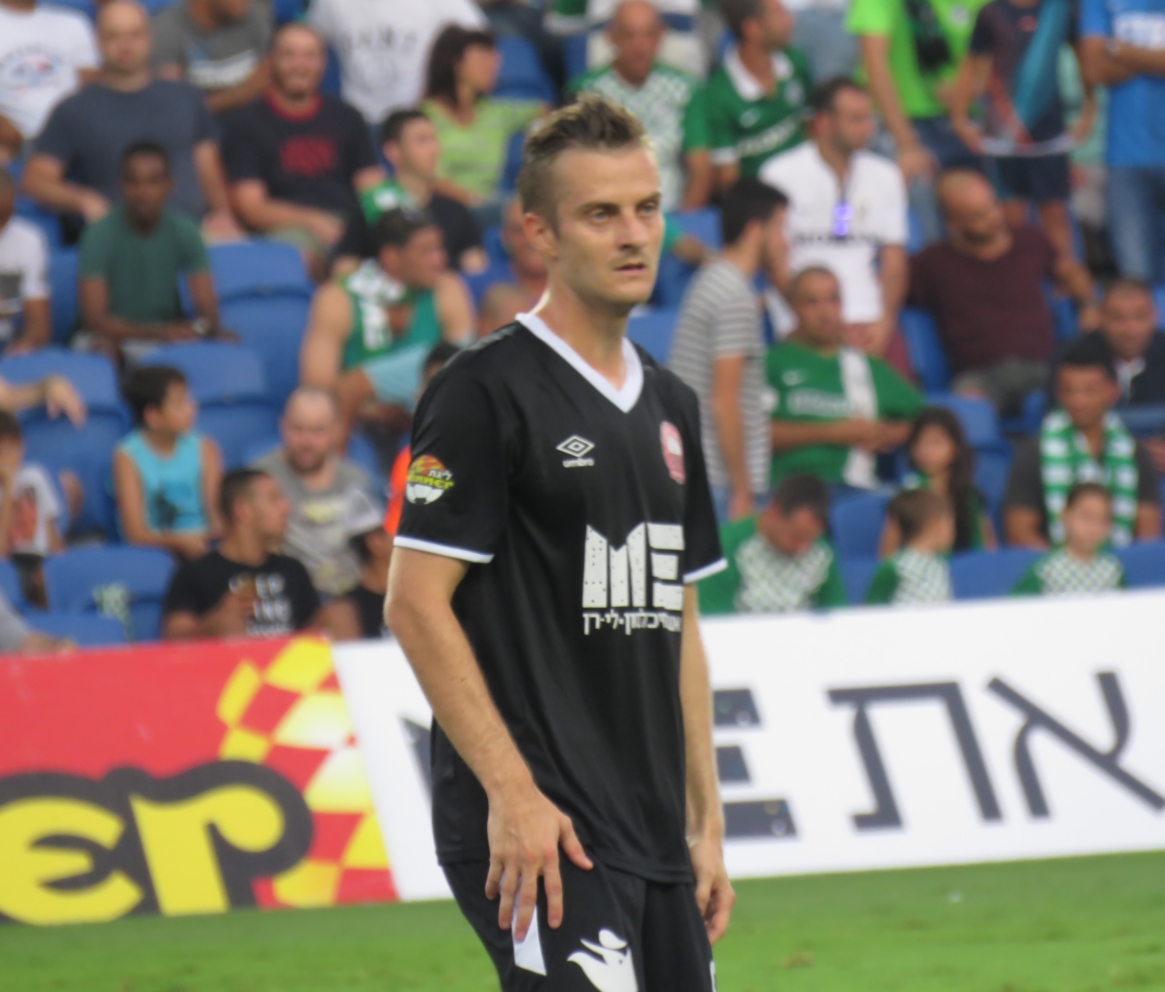 Hapoel Ra'anana vs. Maccabi Haifa F.C., 3 October, 2015